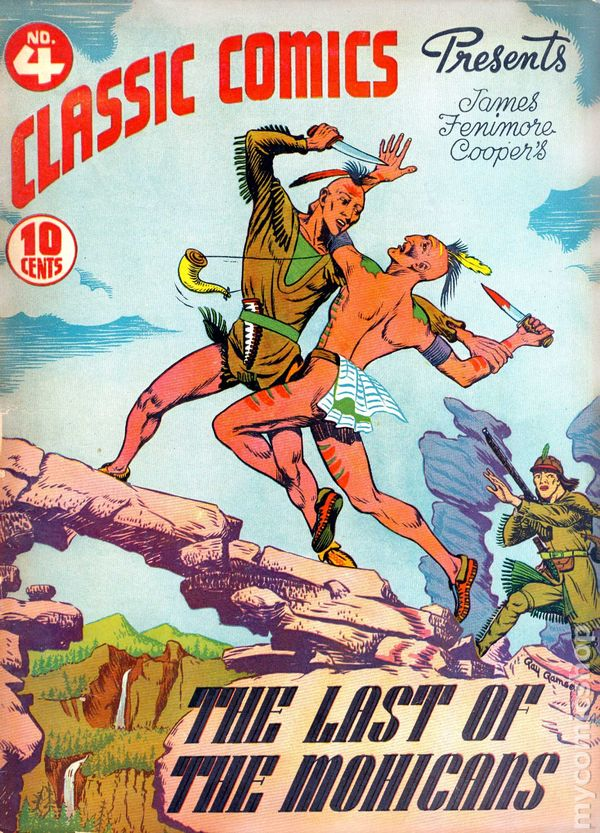 Cover scan of a Classics Comics book